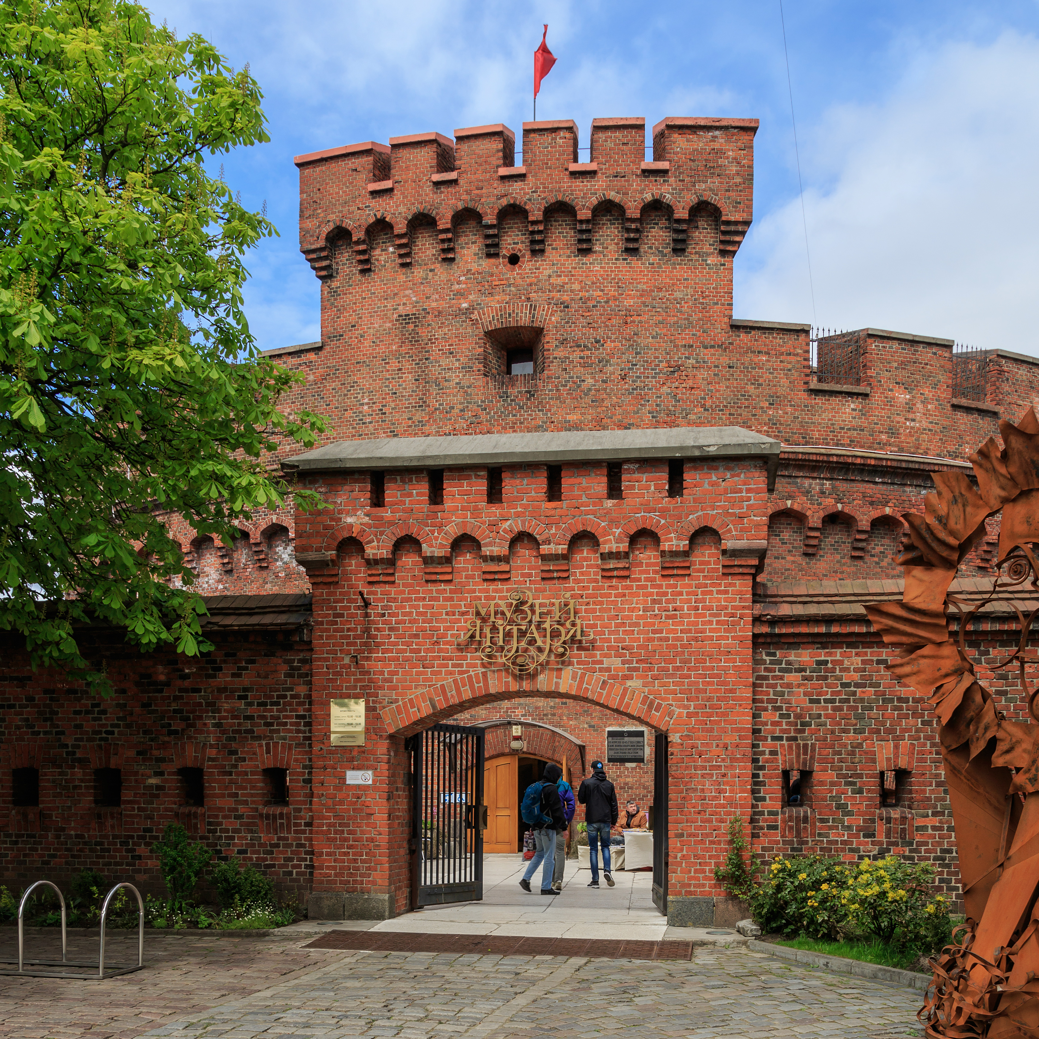 Gate of Dohna Tower / entrance to the Amber Museum in Kaliningrad formerly Königsberg, Kaliningrad Oblast (Russia).